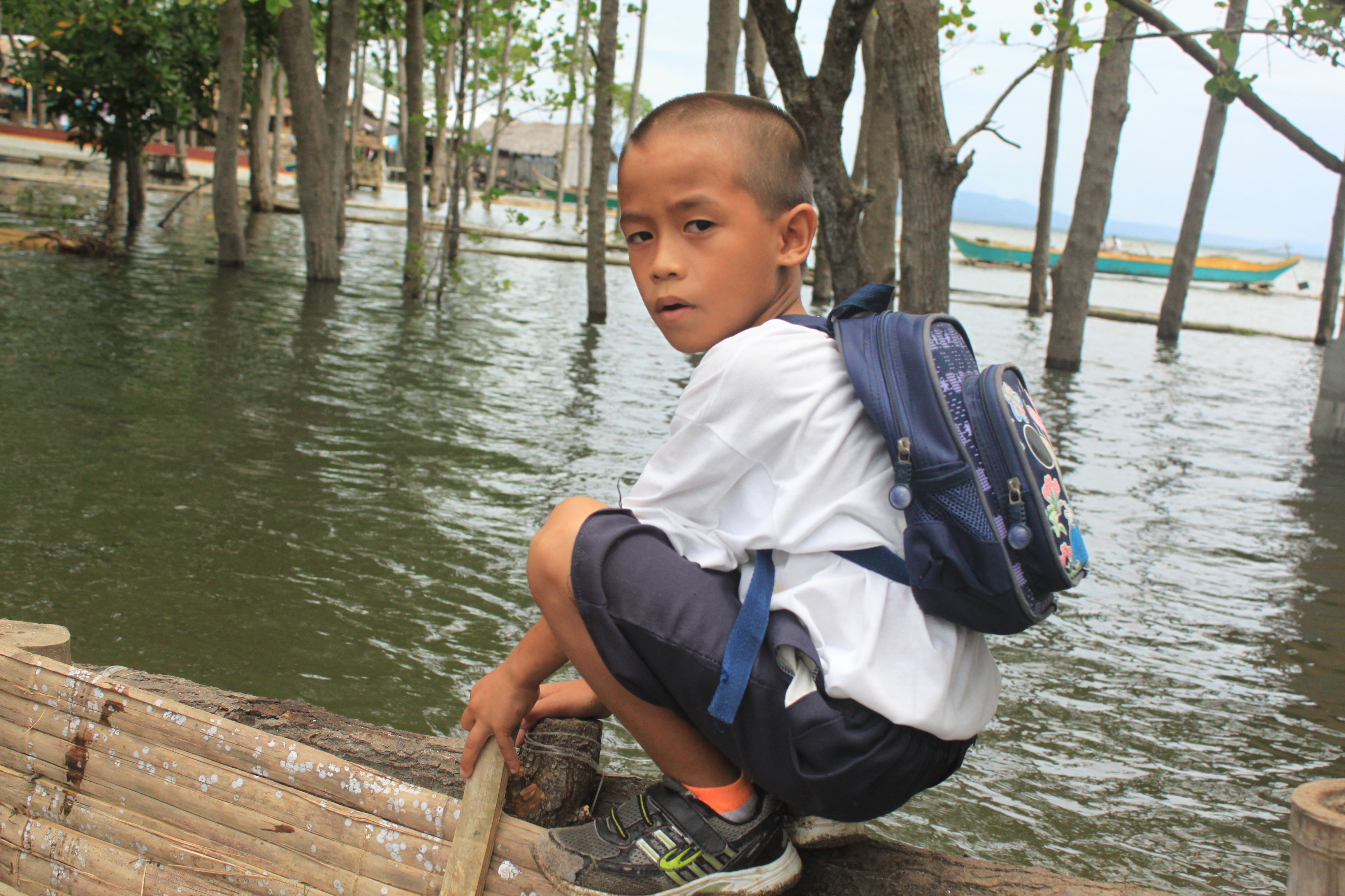 Photo by: J. Bahnarin Salud, 2012